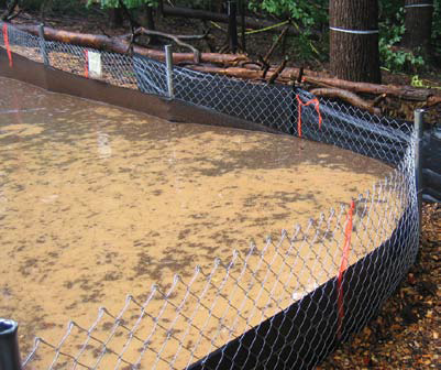 View of a chain link supported silt fence installed at a construction site.